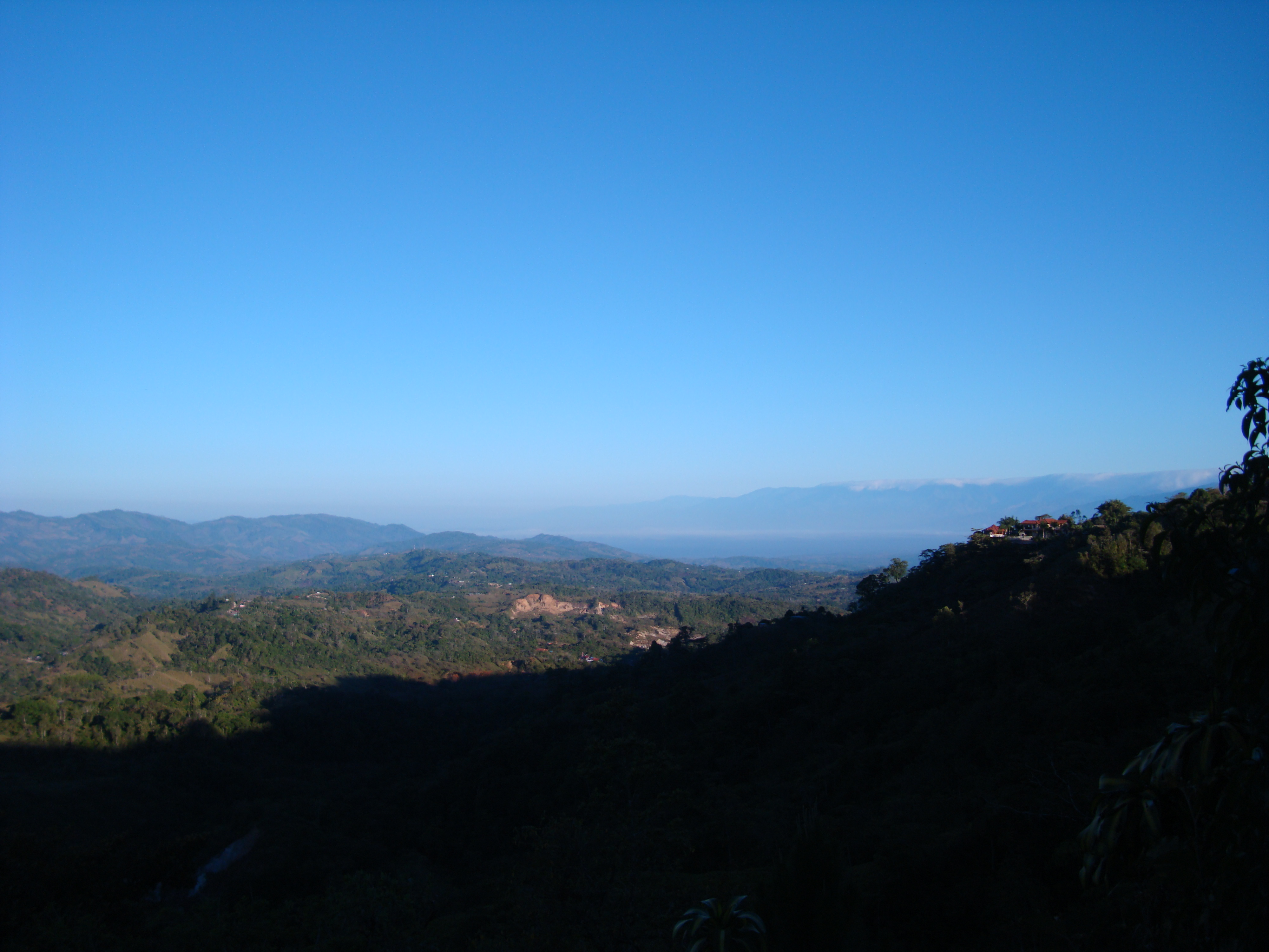 Over looking the surrounding topography of San Vito, Costa Rica